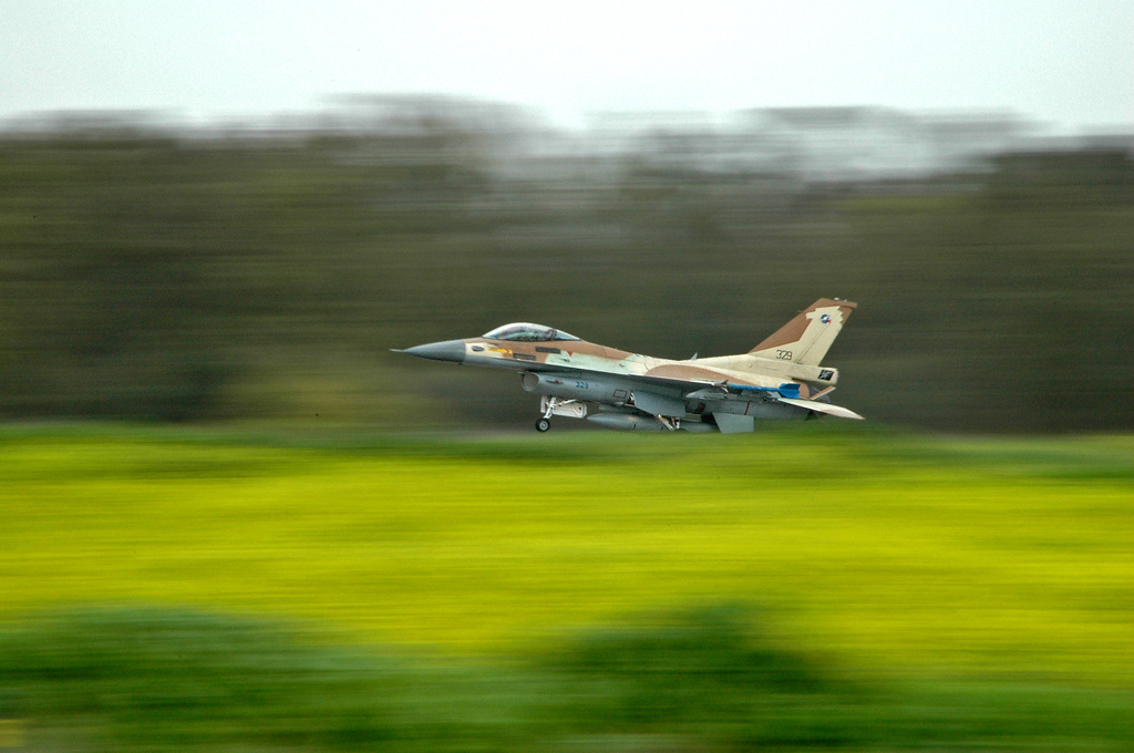 An F-16C plane takes off from an Israeli Air Force base. Cool, huh? The Israel Defense Forces Facebook page The Israel Defense Forces Blog The Israel Defense Forces Youtube The Israel Defense Forces Twitter